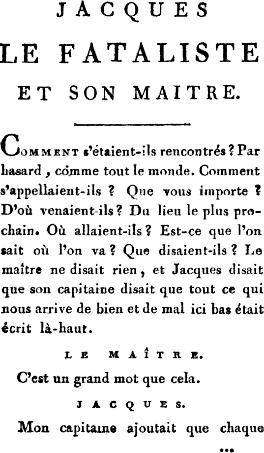 Jacques the Fatalist and his Master (1738) by Denis Diderot (1760-1778)